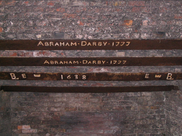 The Old Furnace, Coalbrookdale Cast iron lintels on the furnace used by Abraham Darby to make cast iron with coke, rather than charcoal. Although one is dated 1638 it is suggested that it is more likely to be 1658.